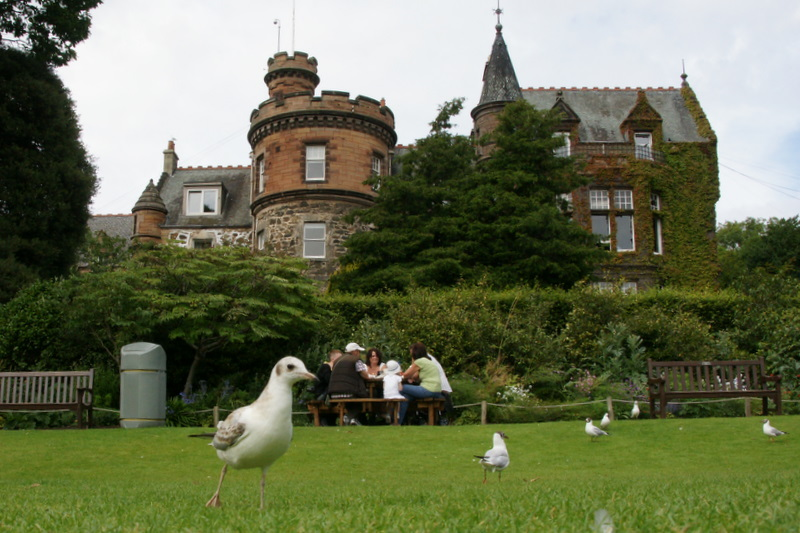 The Mansion House, Edinburgh Zoo. Formerly known as Corstorphine Hill House and built in 1793, the house currently houses a bistro and function rooms for the zoo.